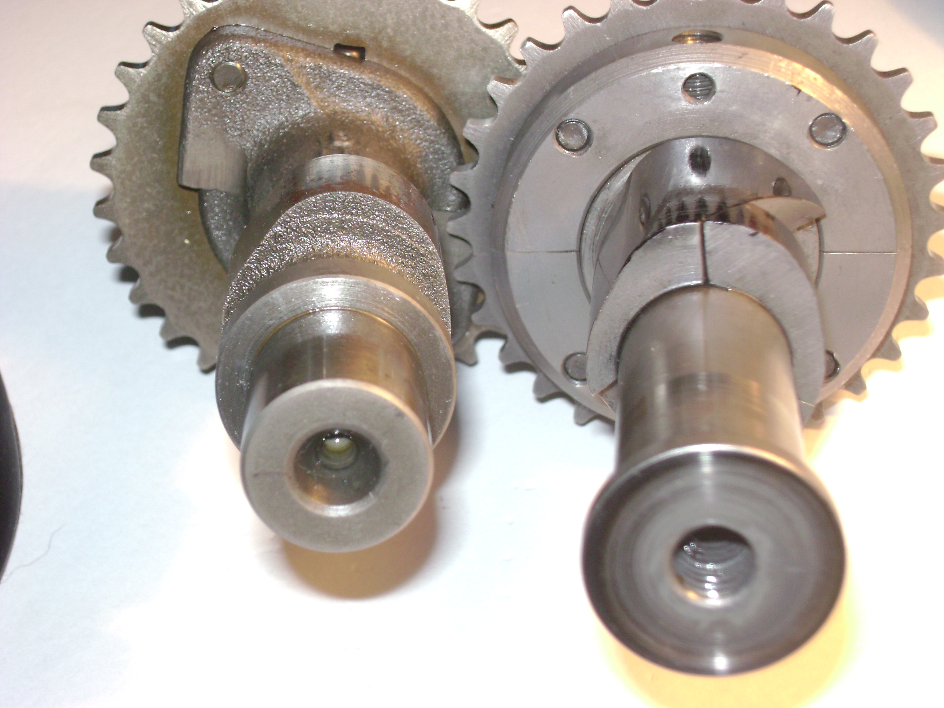 Suzuki GSX 250 standard and helical camshafts. The helical cam is in its minimum duration position. The cams are positioned side-by-side to show that the cam profiles are virtually identical.